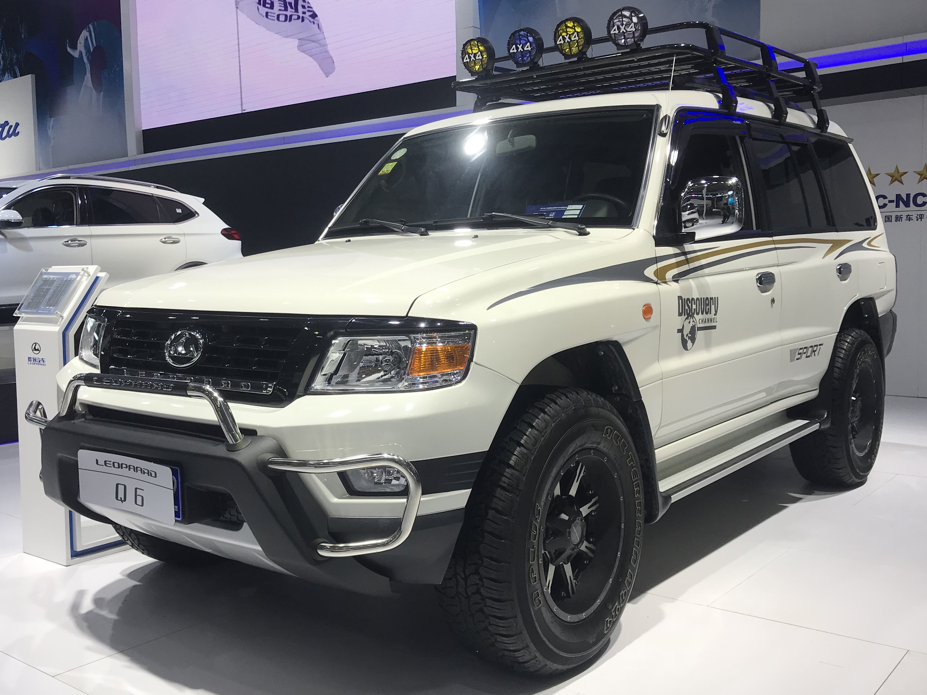 Leopaard Q6 front